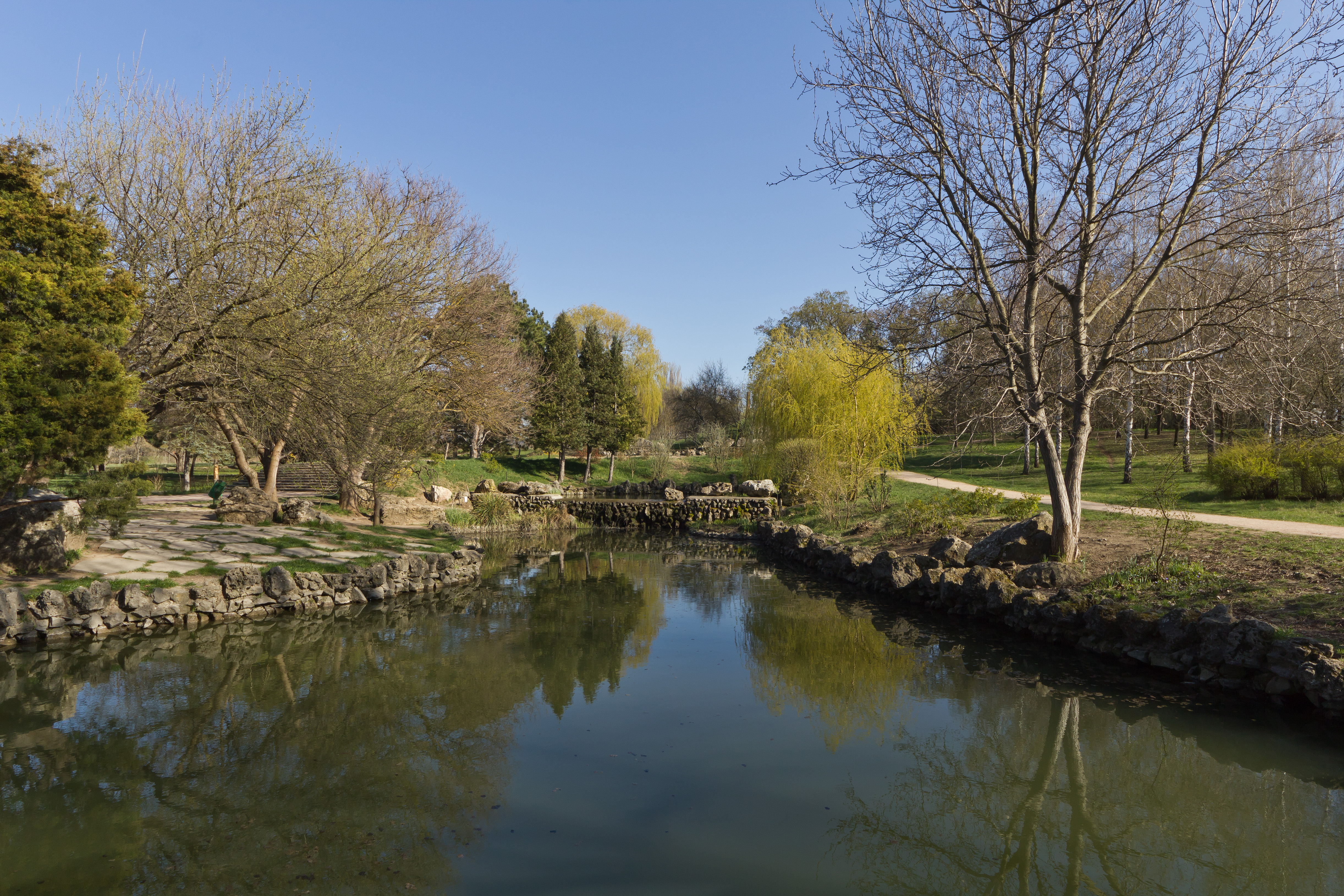 Pond in the botanical garden in Simferopol, Crimean Peninsula.